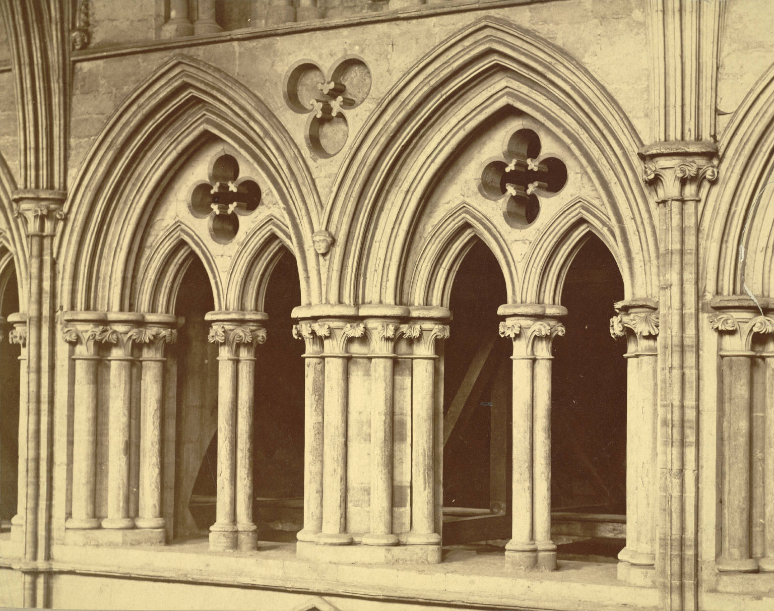 Collection: A. D. White Architectural Photographs, Cornell University Library Accession Number: 15/5/3090.01036 Title: Lincoln Cathedral, Triforium Detail Photograph date: ca. 1860-ca. 1890 Building Date: 12th century Location: Europe: United Kingdom; Lincoln Materials: albumen print Image: 7 1/2 x 9 5/8 in.; 19.05 x 24.4475 cm Style: English Gothic Provenance: Transfer from the College of Architecture, Art and Planning Persistent URI: There are no known copyright restrictions on this image. The digital file is owned by the Cornell University Library which is making it freely available with the request that, when possible, the Library be credited as its source. We had some help with the geocoding from